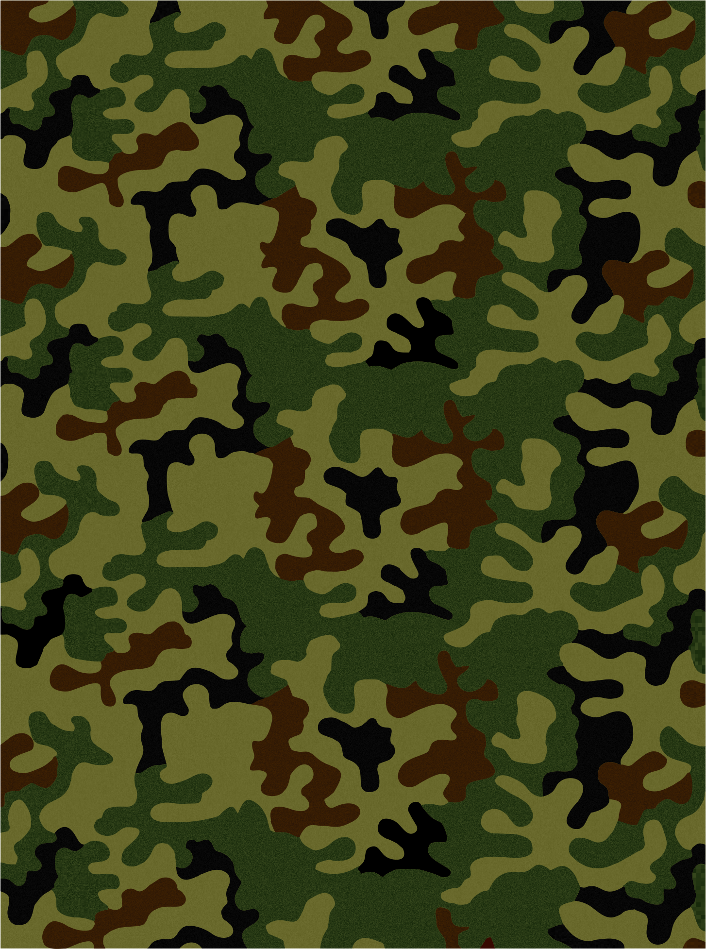 93 Pattern camo